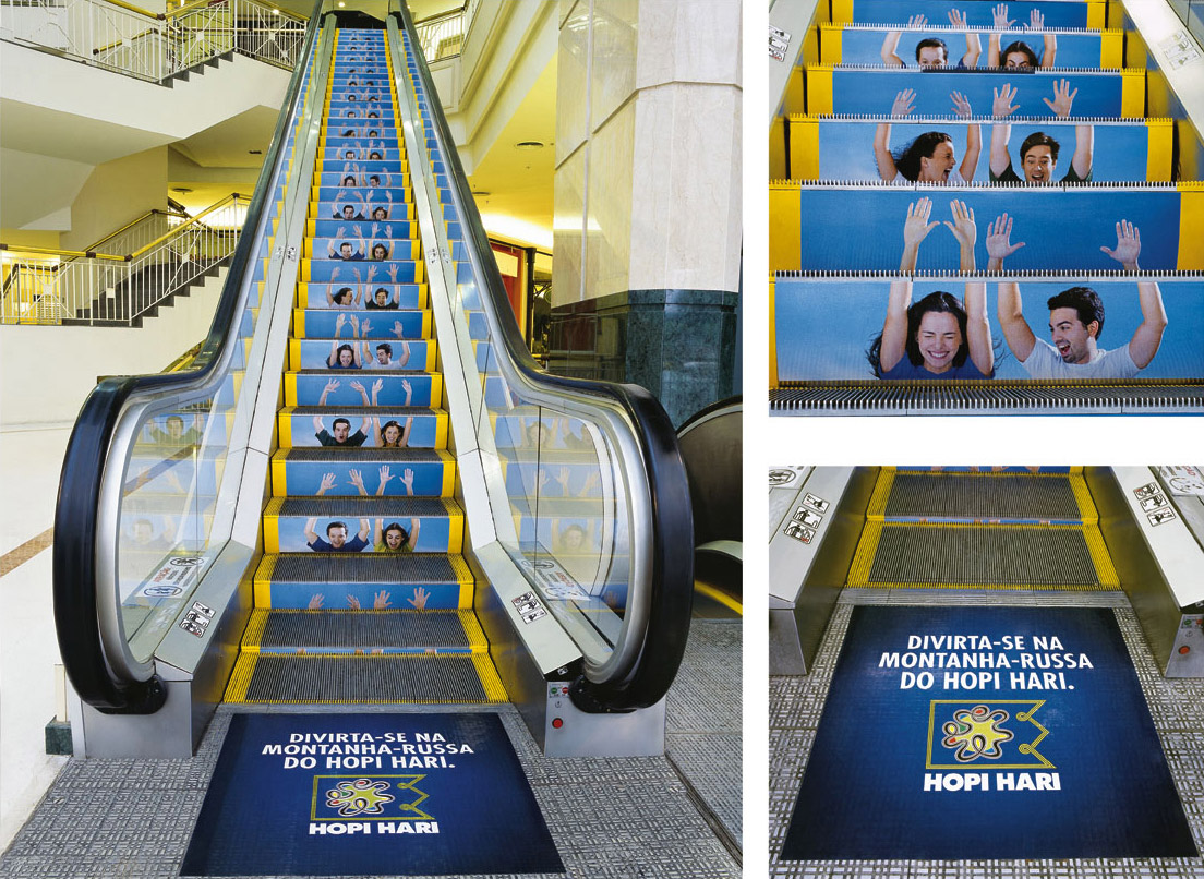 Hopi Hari amusement park using an escalator to look like a roller coaster in an advertisement.